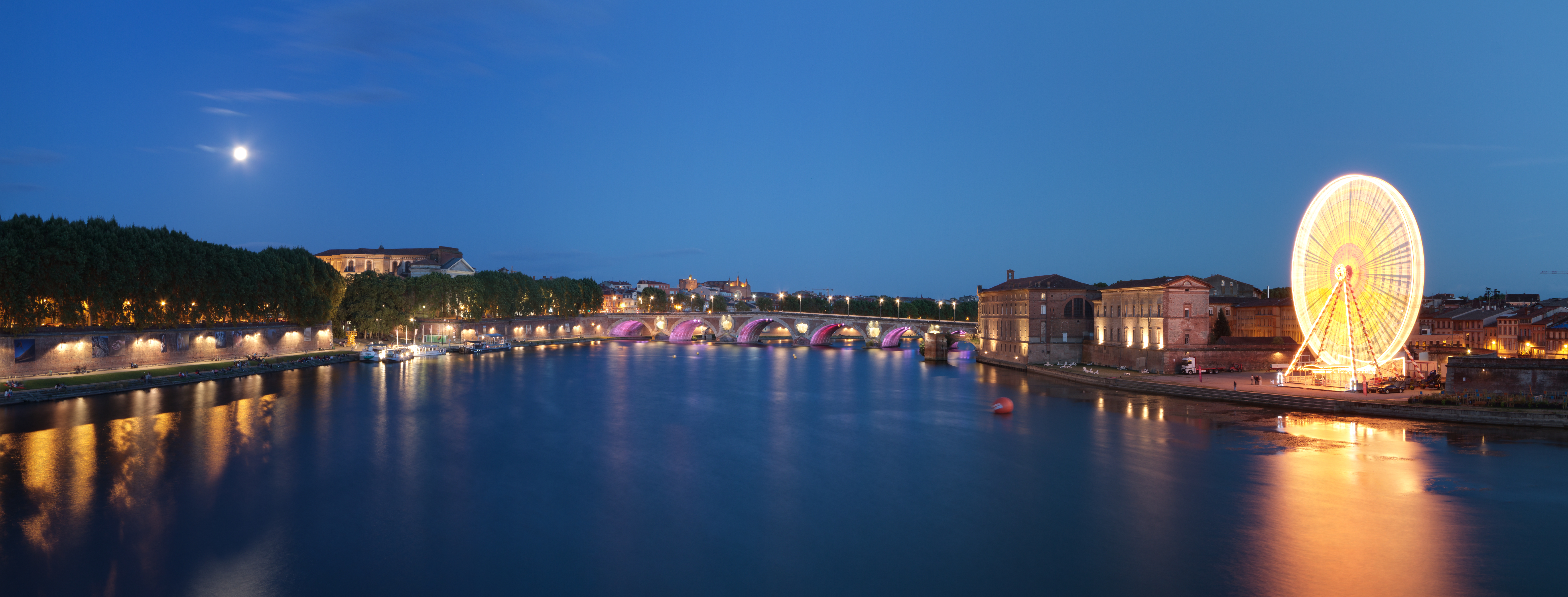 Panorama from pont Saint-Pierre in Toulouse